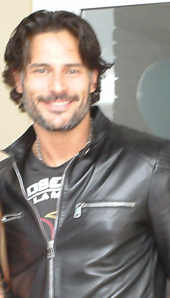 Joe Manganiello at Pinkberry opening.